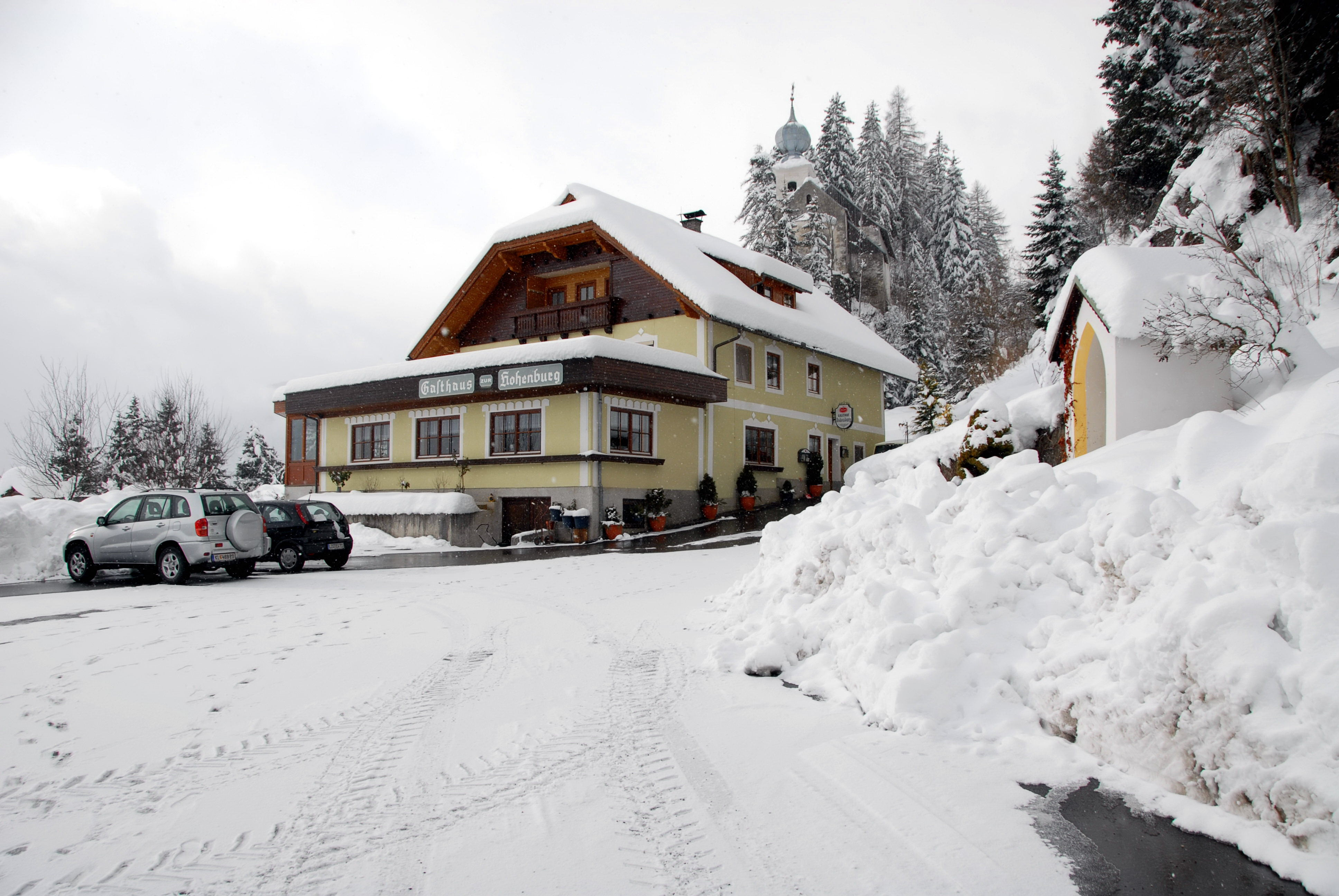 Guesthouse and church at Hohenburg in Pusarnitz, situated in the community of Lurnfeld, Carinthia, Austria